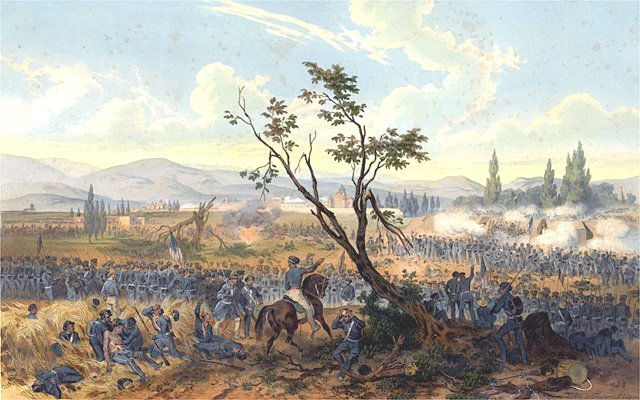 Battle of Churubusco, during the Mexican-American War, painting by Carl Nebel